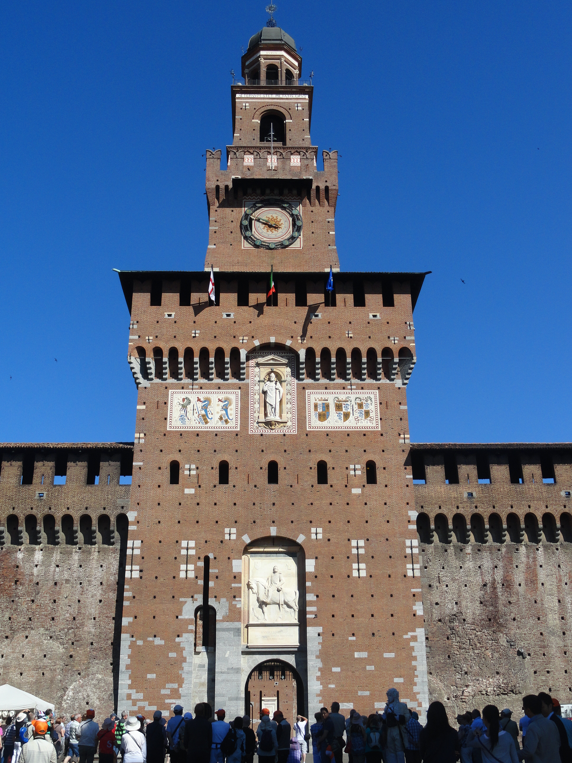 The front gate of Sforza Castle in Milan, Italy, is occupied by a lot of foreign tourists from early in the mornings. By the founder of